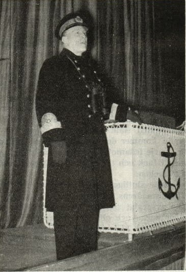 Admiral Yngve Ekstrand greets the meeting participants welcome to the Navy's sports hall in Vitså on the island of Vitsgarn in the Stockholm archipelago.